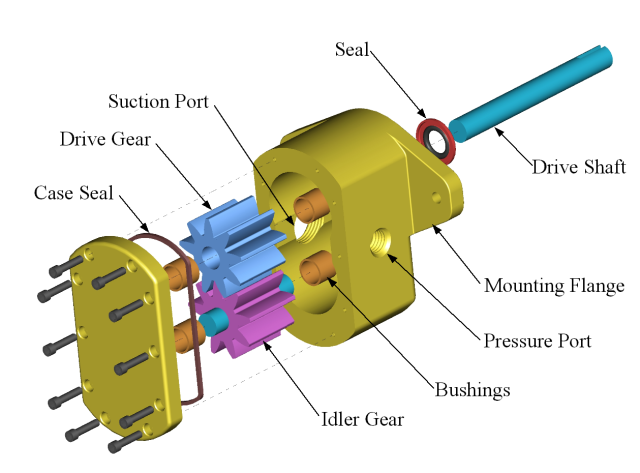 An exploded view of an external gear pump.